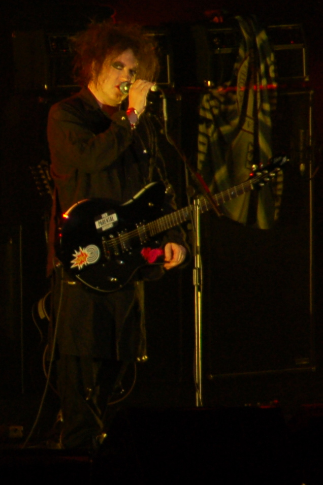 Robert Smith during a performance by The Cure in Singapore